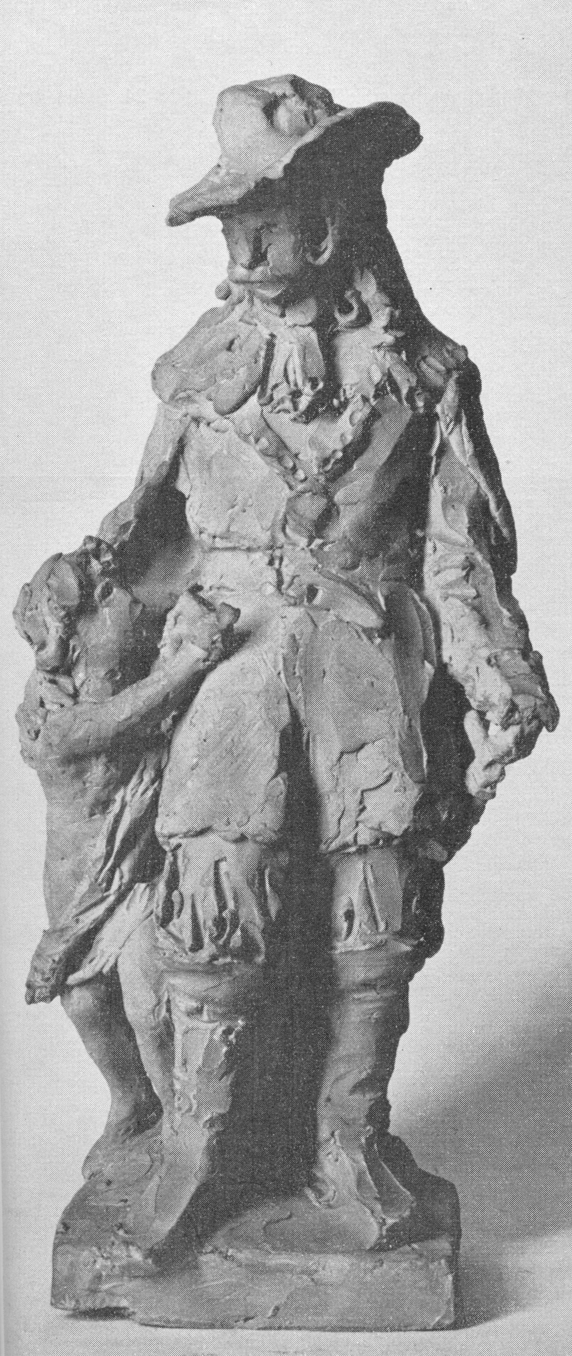 Johannes Takanen: Model to statue of Per Brahe.